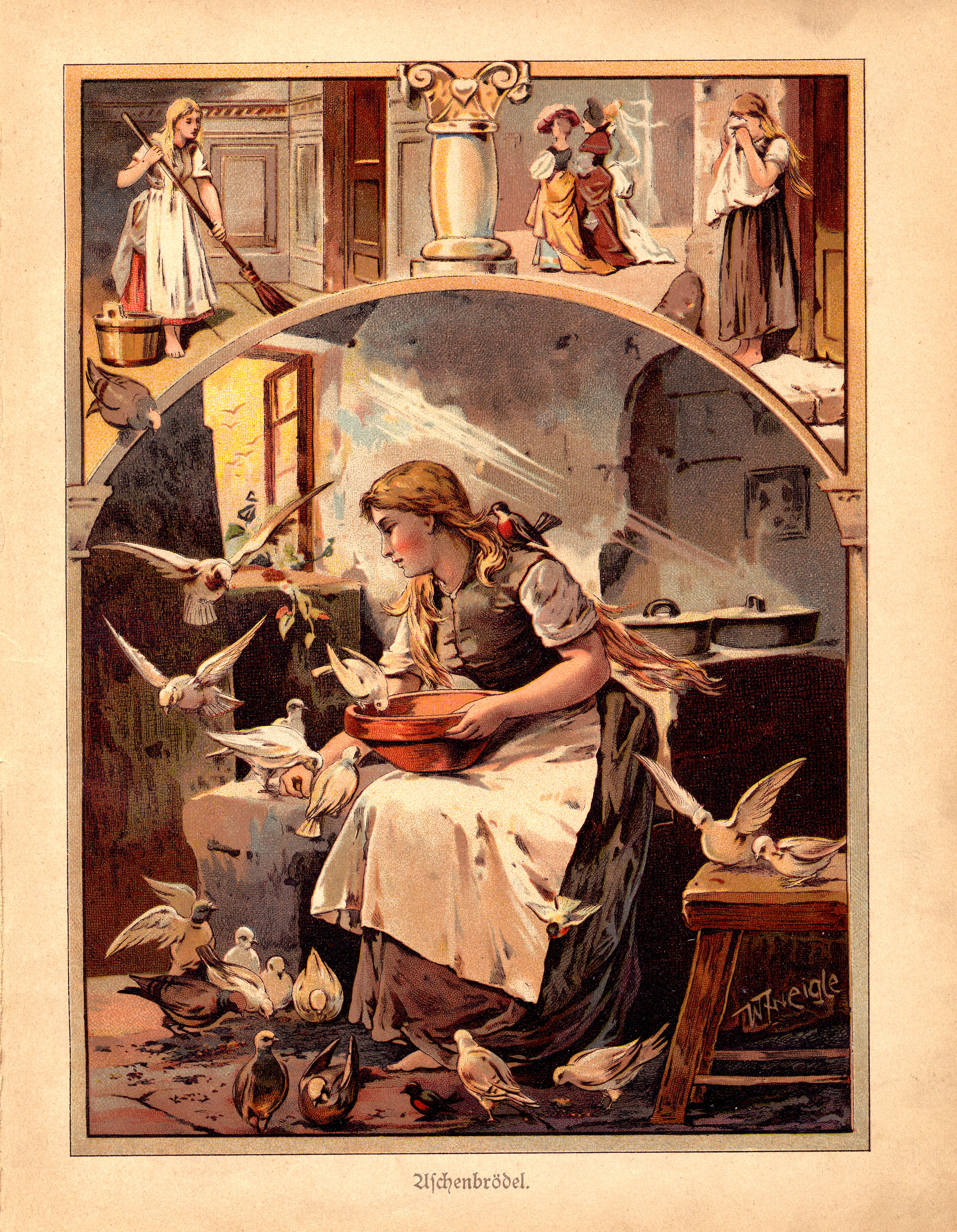 From a book of German fairy tales called Märchenbuch c1919.